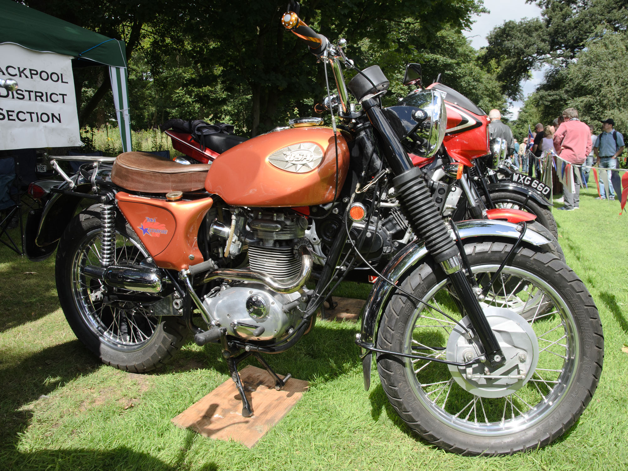 Lytham Hall Classic Car Show 31/07/2016